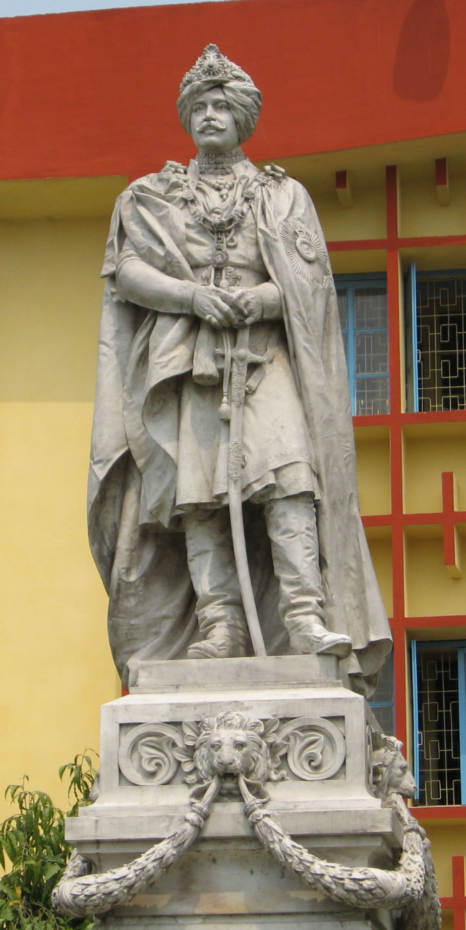 Statue of Maharaja Nripendra Narayan, King of Cooch Behar (Grandfather of Maharaja-Jagaddipendra-Narayan near District Court in the Sagar Dighi area